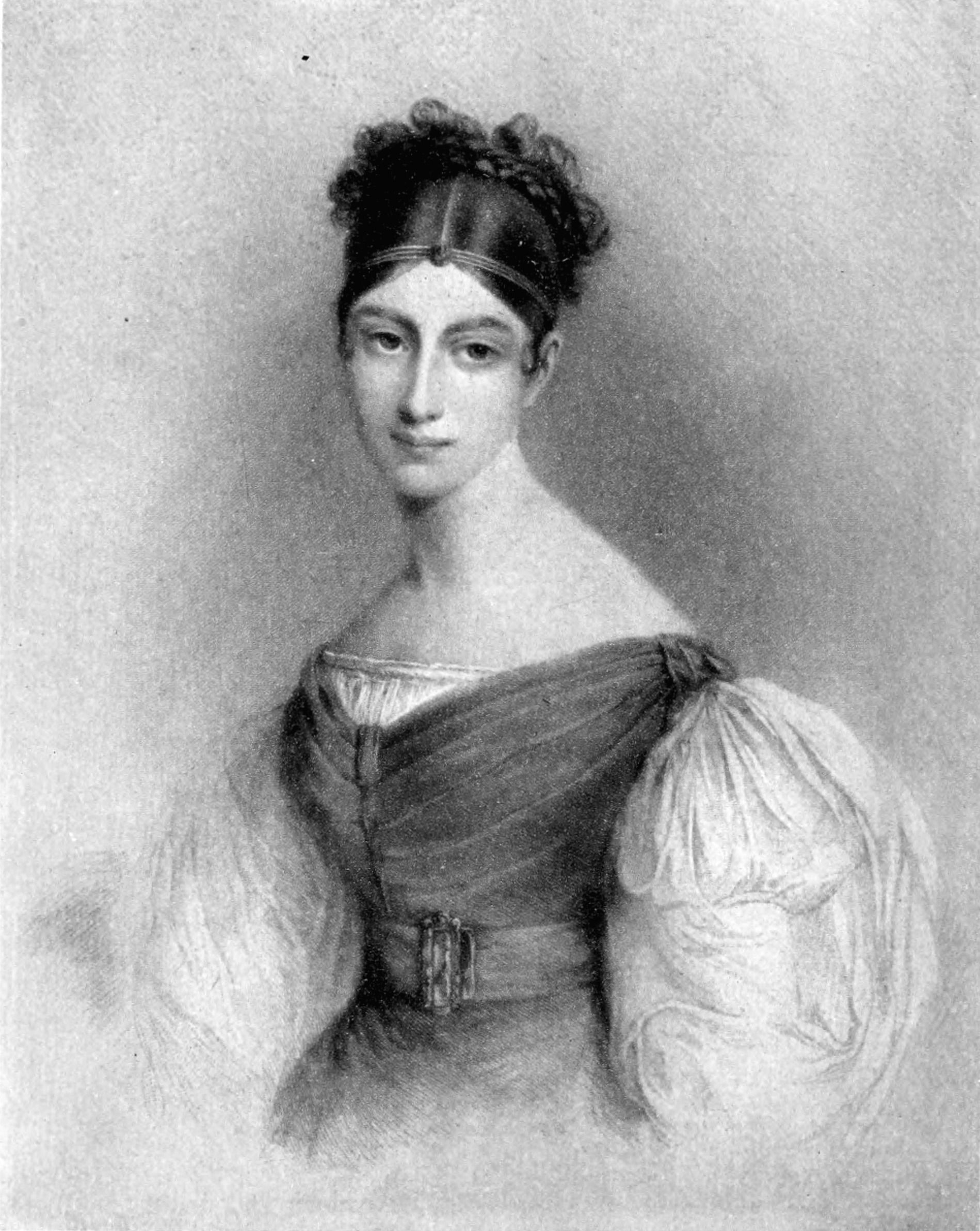 Maria Malibran Title: Grand opera in America Year: 1901 (1900s) Authors: Lahee, Henry Charles, 1856-1953 Subjects: Opera Publisher: Boston : L. C. Page Text Appearing Before Image: IN MEMORY OF George Fitzroy GRAND OPERA IN AMERICA Ube ZlDusic %ovev& Series Great Composers and Their Work By Louis C. Elson Famous Singers of To-day and Yesterday By Henry C. Lahee Famous Violinists of To-day and Yesterday By Henry C. Lahee Famous Pianists of To-day and Yesterday By Henry C. Lahee Contemporary American Composers By Rupert Hughes Grand Opera in America By Henry C. Lahee A Critical History of Opera By Arthur Elson The National Music of America and ItsSources By Louis C. Elson The Love Affairs of Great Musicians. 2 Vols. By Rupert Hughes Womans Work in Music By Arthur Elson Shakespeare in Music By Louis C. Elson The Organ and Its Masters By Henry C. Lahee Orchestral Instruments and Their Use By Arthur Elson The Modern Composers of Europe By Arthur Elson $1.50 I.50I-SOI.50I.50I.50I.50 I.504.OO2.002.002.002.002.00 %. C. IPacie & Company NEW ENGLAND BUILDING BOSTON MASS. Text Appearing After Image: MADAME MALIBRAN. Grand Opera in America ByHenry C. Lahee ILLUSTRATEDgrandoperainamer00lahe